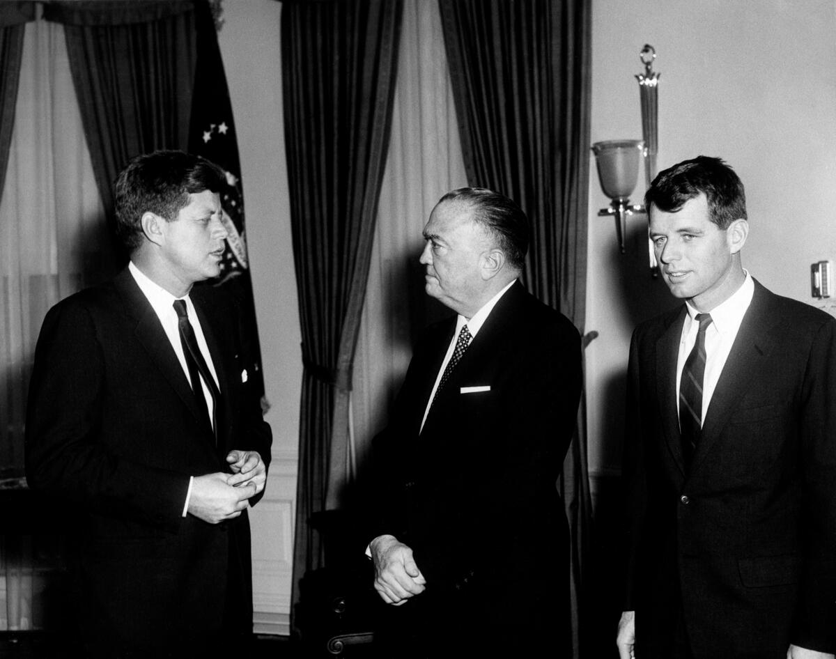 President John F. Kennedy meets with the Director of the Federal Bureau of Investigation (FBI) J. Edgar Hoover (center) and Attorney General Robert F. Kennedy (right). Oval Office, White House, Washington, D.C.